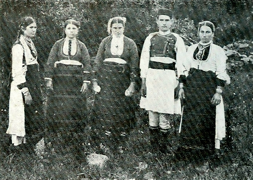 People from Gradec in national costumes